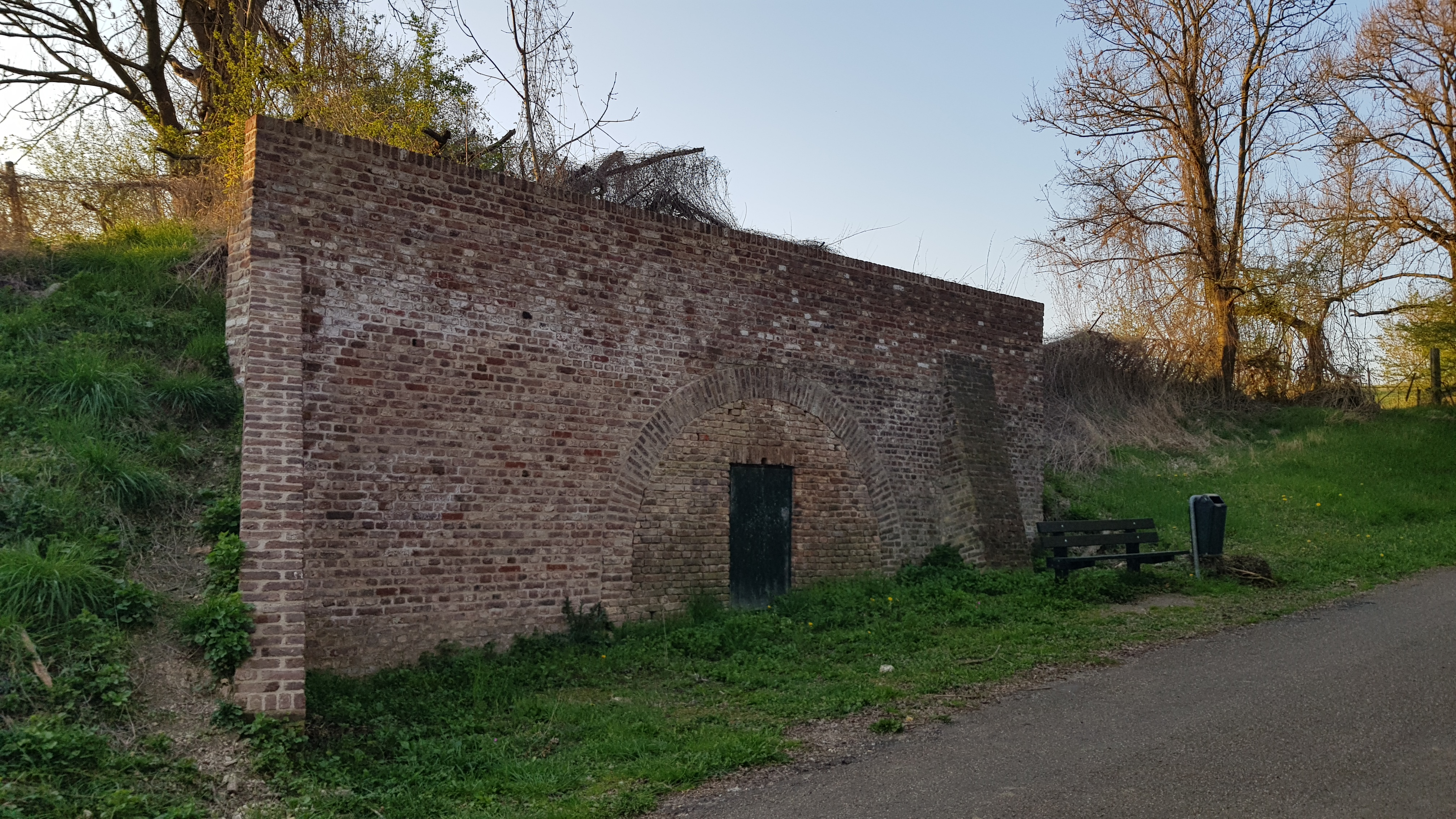 Industrial monument Kalkoven Dikkebuiksweg, Wijlre, Limburg, Netherlands